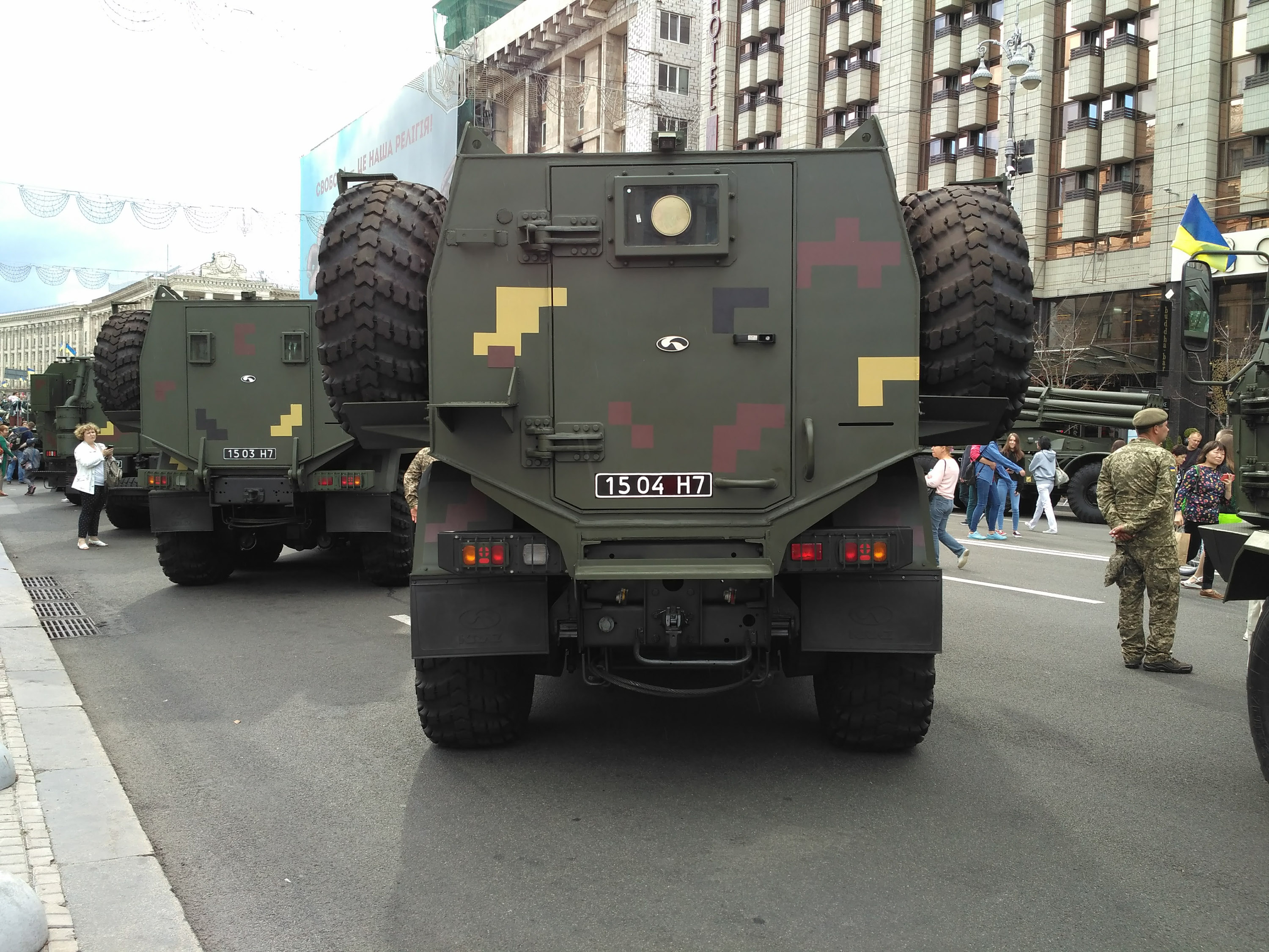 KrAZ Shrek One vehicle, Kyiv 2017